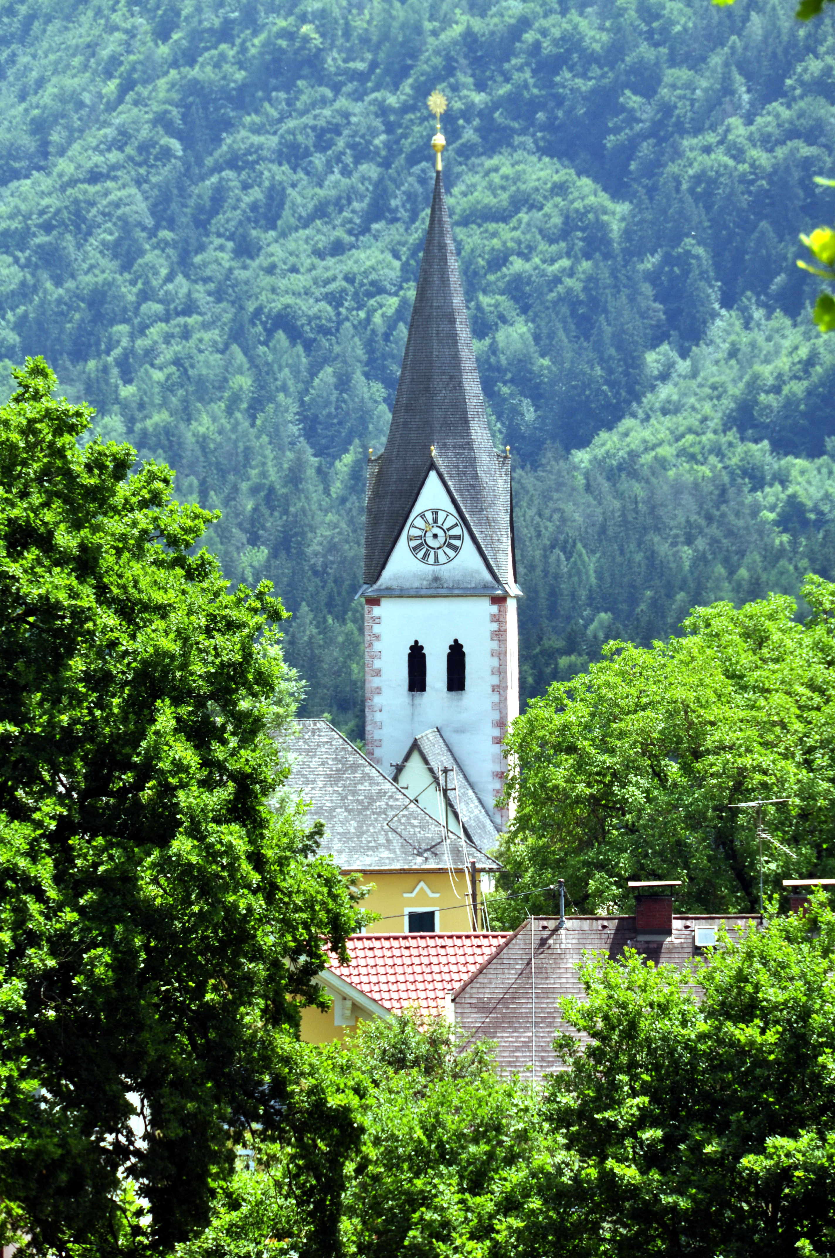 Parish church`s steeple "Holy George" in Keutschach am See, district Klagenfurt Land, Carinthia / Austria / EU